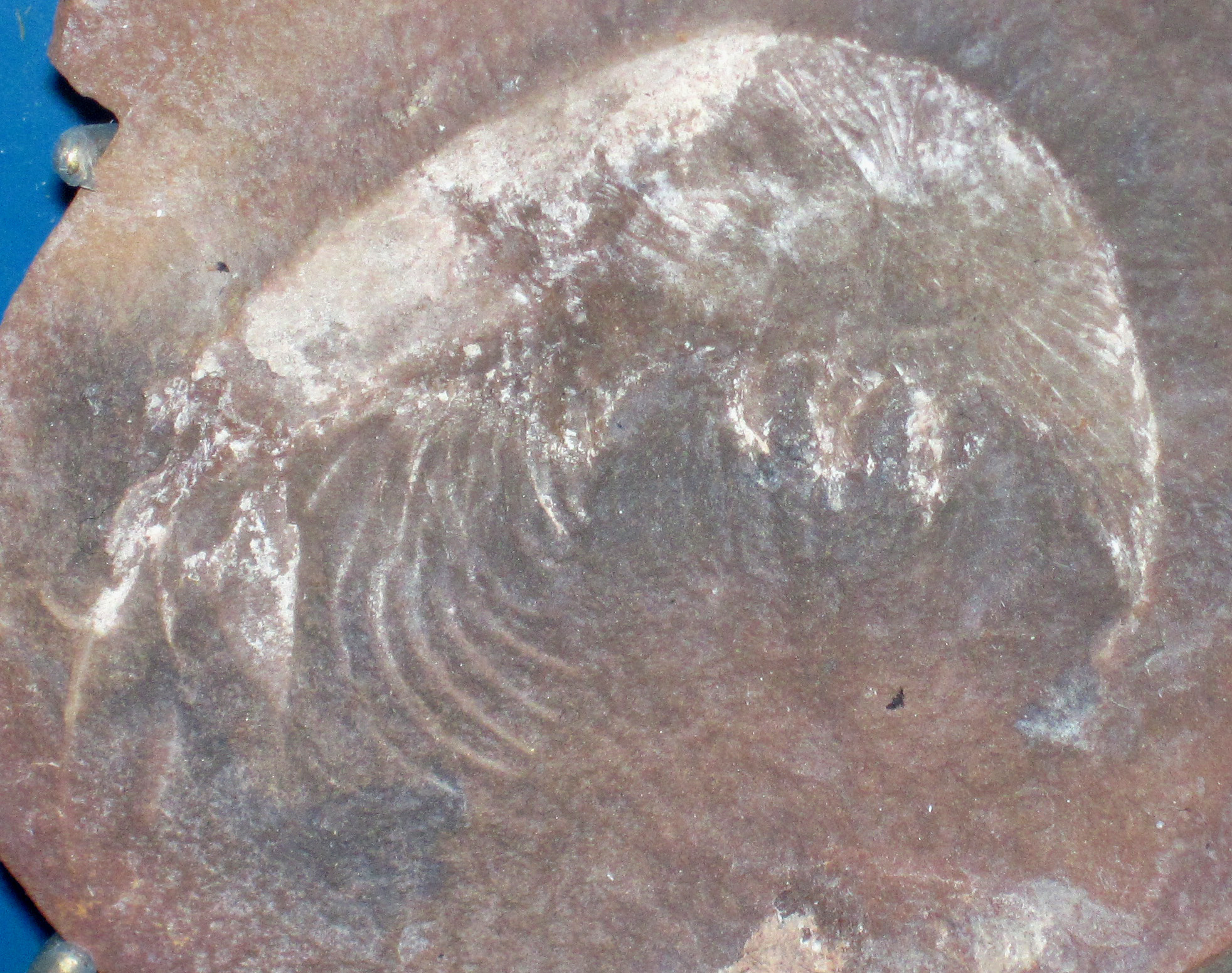 Kallidecthes richardsoni Schram, 1969 fossil shrimp from the Pennsylvanian of Illinois, USA (public display, FMNH PE 37598, Field Museum of Natural History, Chicago, Illinois, USA). One of the most remarkable soft-bodied fossil deposits (lagerstätten) on Earth is the Pennsylvanian-aged Mazon Creek Lagerstätte near Chicago, Illinois. In the Mazon Creek area, the Francis Creek Shale consists of concretionary gray shales. The Francis Creek concretions are composed of argillaceous ironstone, and can be fossiliferous or nonfossiliferous. The fossiliferous concretions contain land plants and terrestrial & marine animals, including nonmineralizing organisms. This Kallidecthes richardsoni specimen is a laterally compressed fossil shrimp in a Mazon Creek concretion. Classification: Animalia, Arthropoda, Crustacea, Malacostraca, Hoplocarida, Aeschronectida Stratigraphy: Mazon Creek Lagerstätte, Francis Creek Shale Member, Carbondale Formation, Desmoinesian Stage (= Westphalian D), upper Middle Pennsylvanian Locality: coal mine dump pile near Essex, northern Illinois, USA